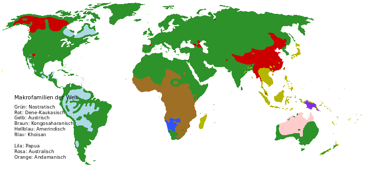 Map of the hypothetical language superfamilies